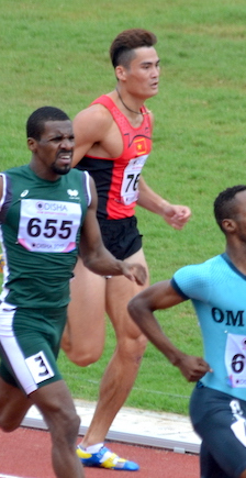 Athletes during 22nd Asian Athletics Championships in Bhubaneswar.